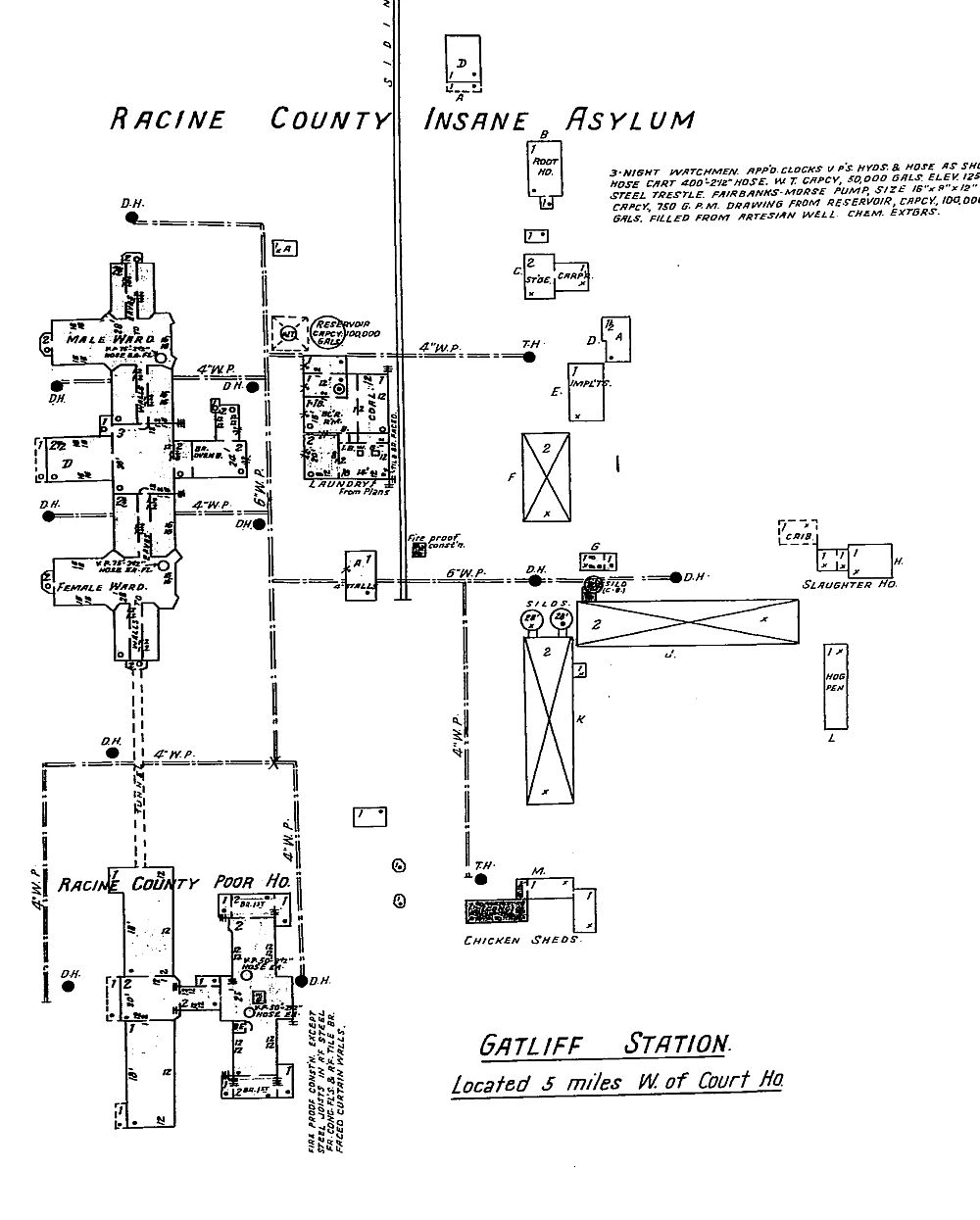 A Sanborn map of the Racine County Insane Asylum, 1933.